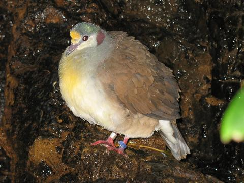 Description: Sulawesi Ground Dove - Source: own work - Location: Central Park Zoo, New York - Author: self, User:Stavenn